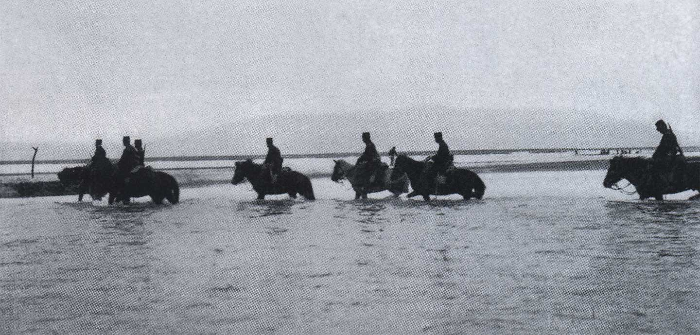 Japanese cavalries Crossing the Yalu River, 2